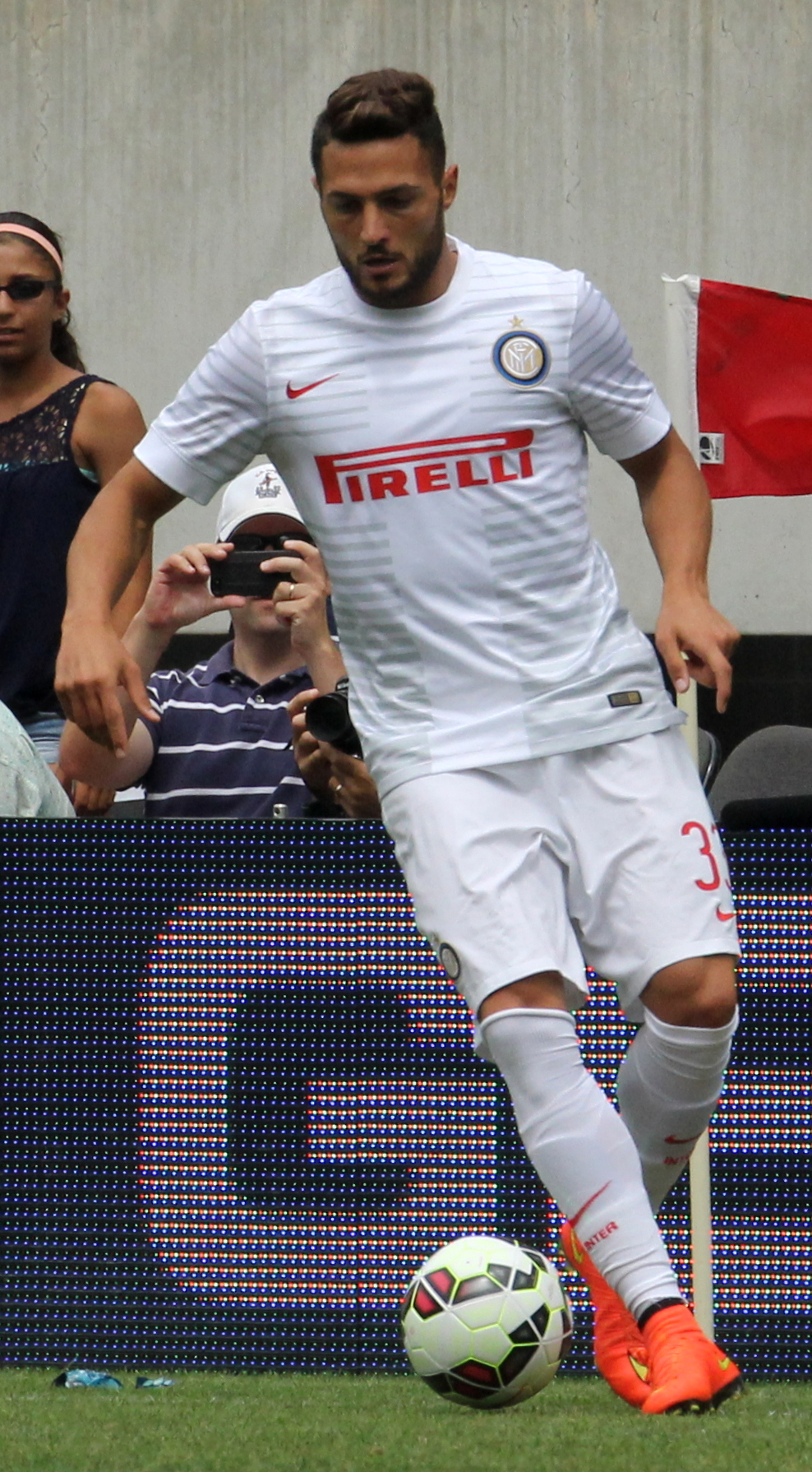 Danilo D'Ambrosio playing for Inter Milan in pre-season friendly against AS Roma in International Champions Cup in 2014.